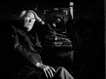 A. Remfeldt, Norwegian Phptographer (Portraitist), born and died in Danmark, photo taken in his studio 1989. This file was made by B. M. Askholm, Please credit this: B. Askholm foto. An email to B. Mathias at baskholm(--) would be appreciated too.